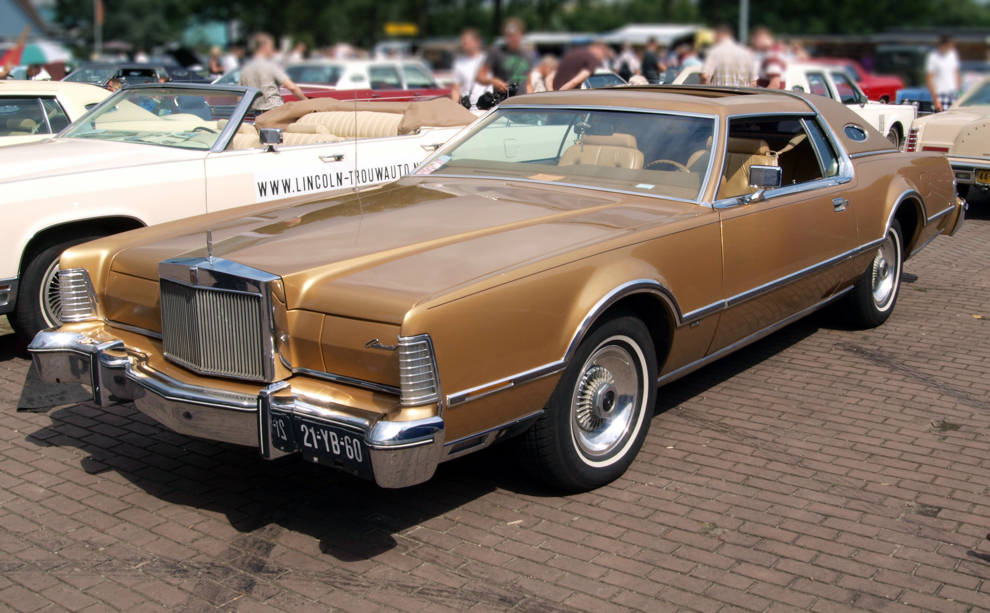 Photographed at the 2010 Autotron Classic car meeting, Rosmalen, The Netherlands. OLYMPUS DIGITAL CAMERA